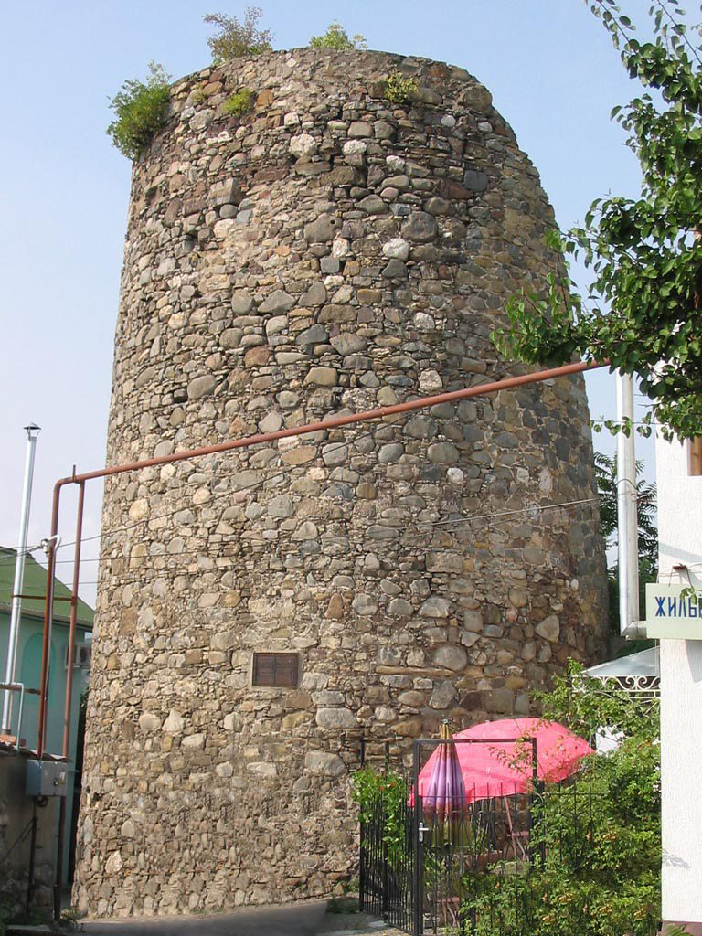 View of the 15th Century Alushta Fortress in Alushta.